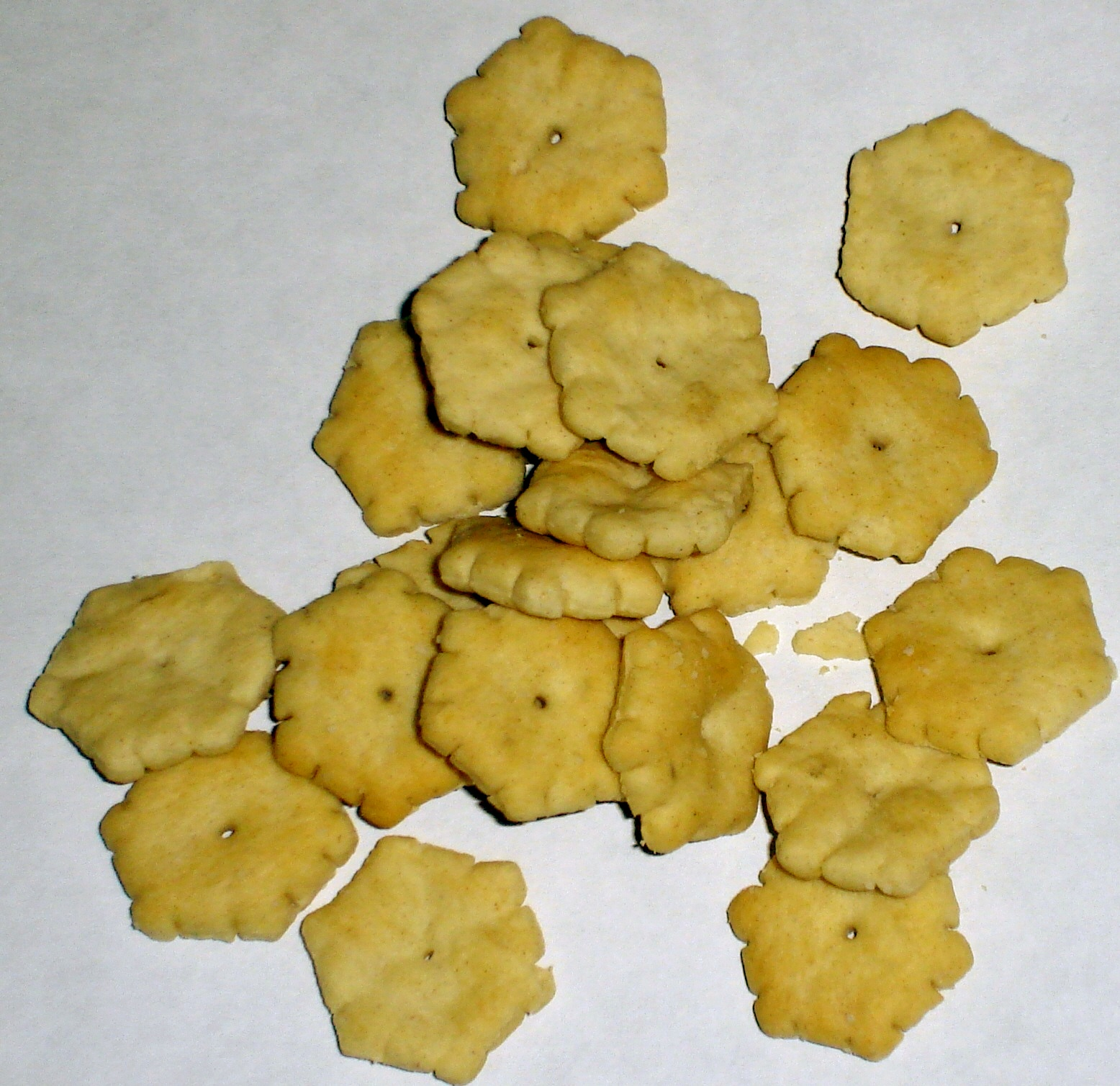 Oyster crackers, taken by User:Alhutch